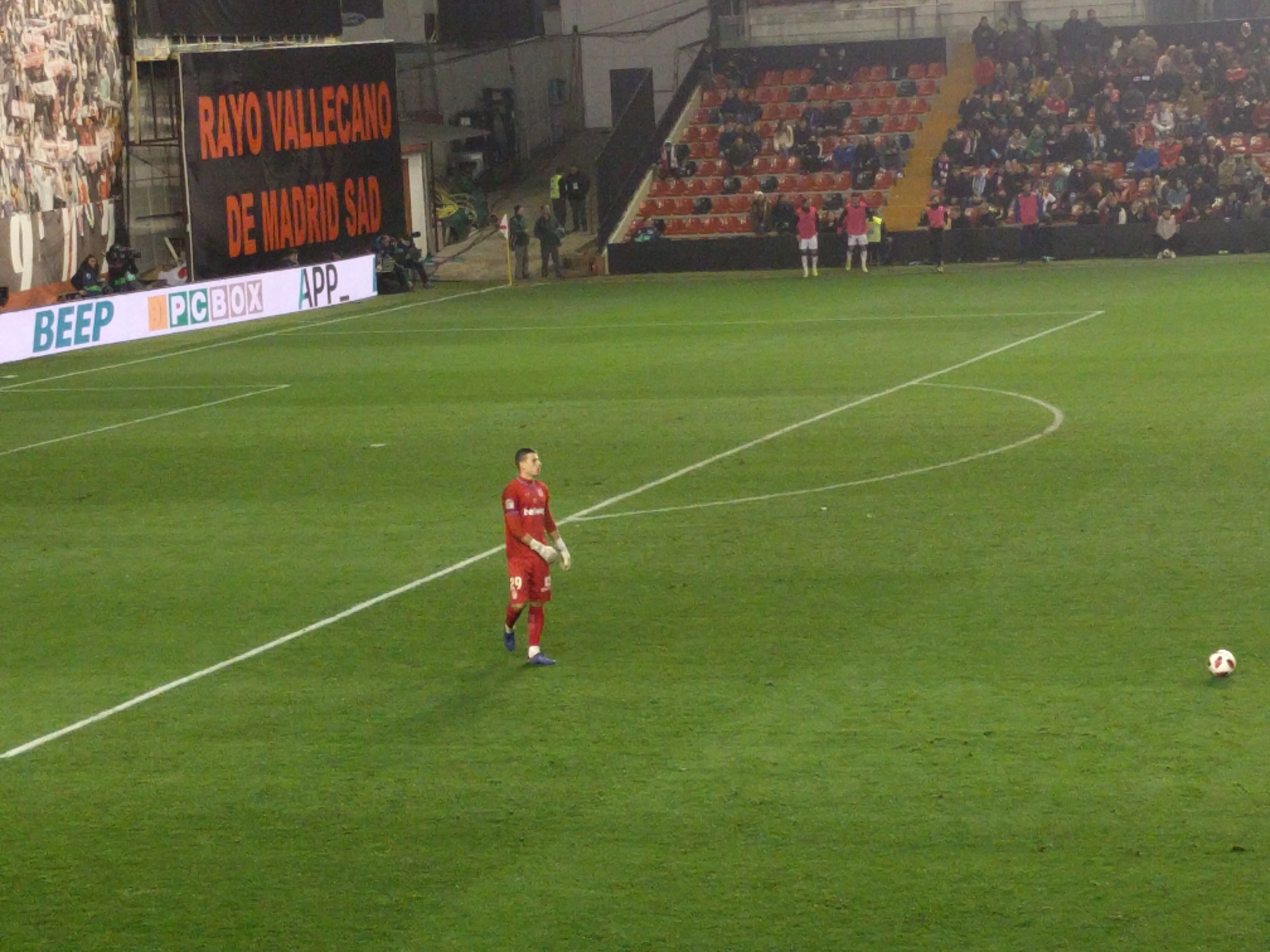 Lunin in the match of Copa del Rey Rayo 0:1 Leganés, December 4th 2018